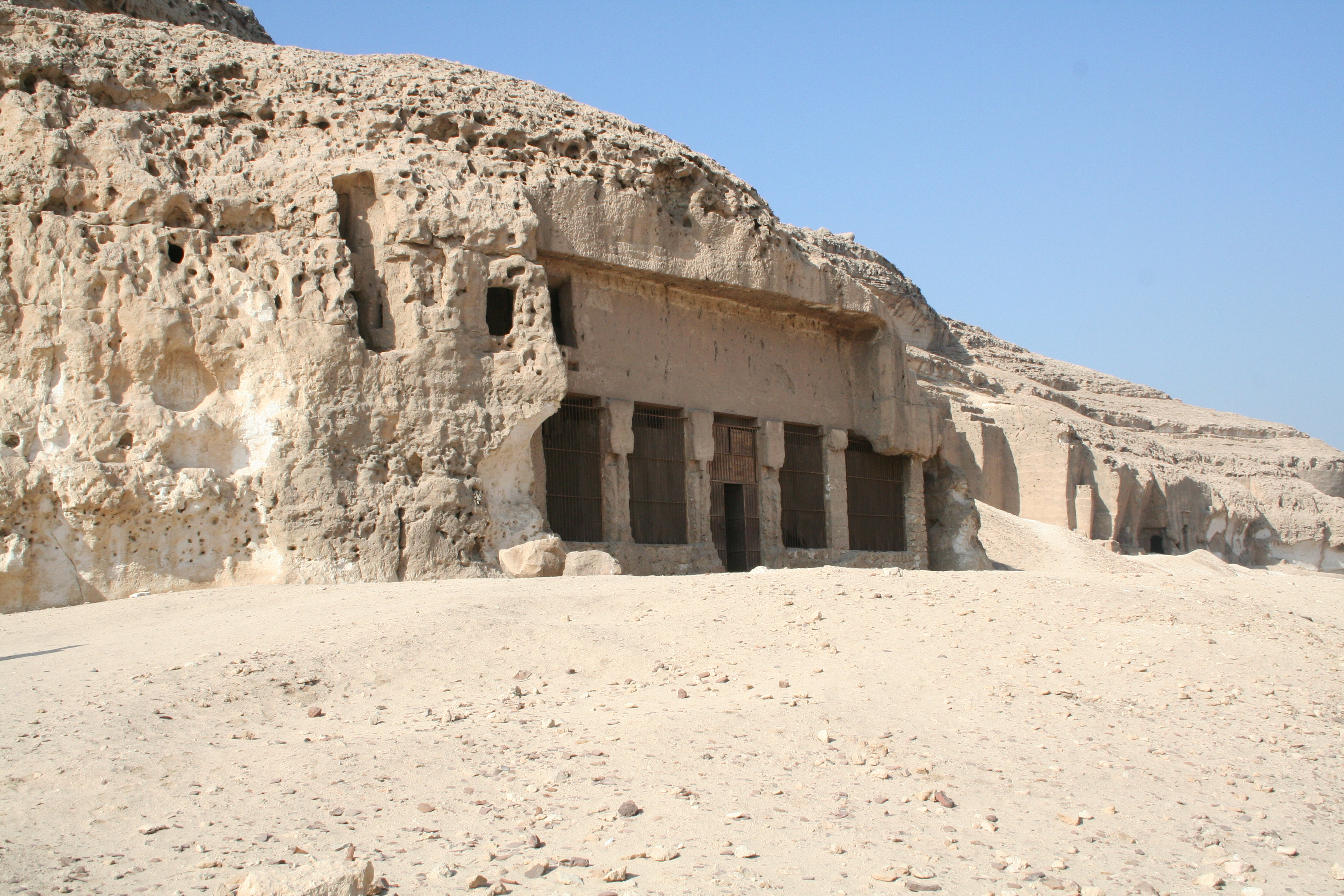 Istabl Antar/Speos Artemidos, Rock temple of Pachet, temp. Hatshepsut, 18th dynasty